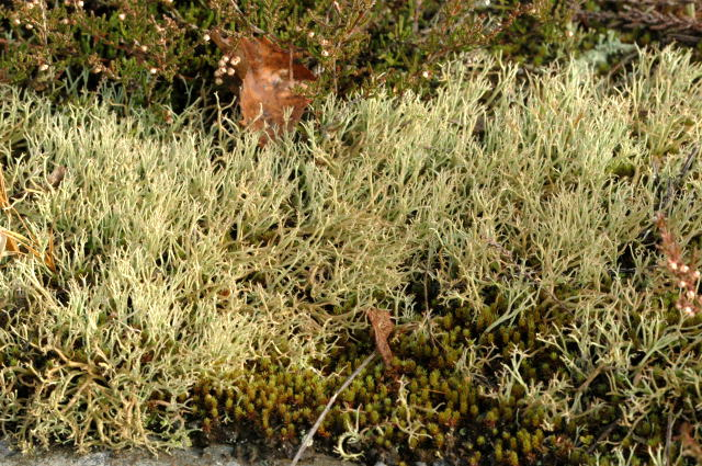 Picture taken in Commanster, Belgian High Ardennes . Species: Cladonia furcata